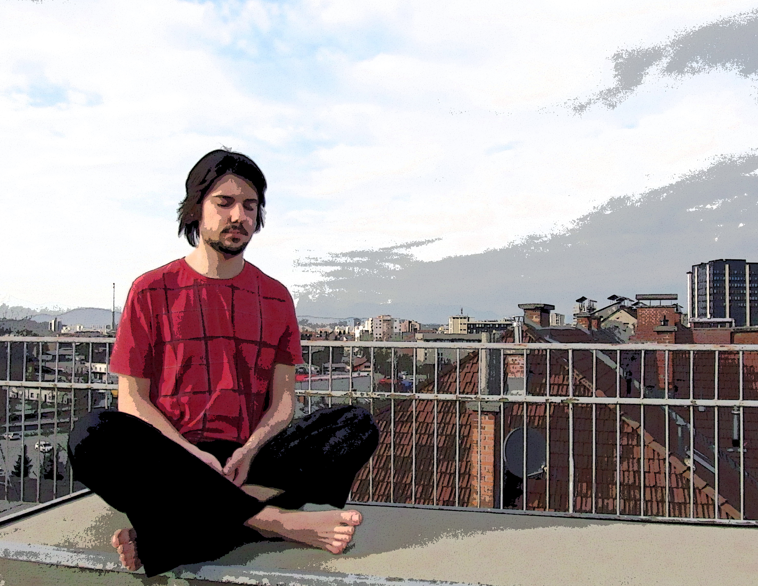 Meditation can be done anywhere. Anytime.